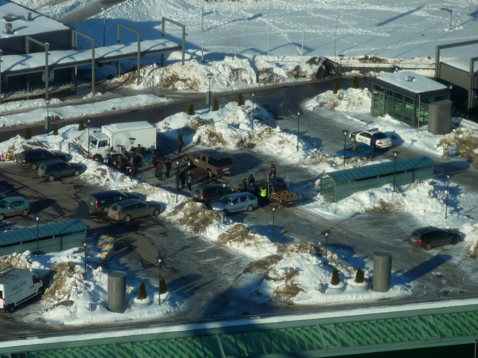 Film shooting for Finnish drama movie Vuosaari in Vuosaari district, Helsinki